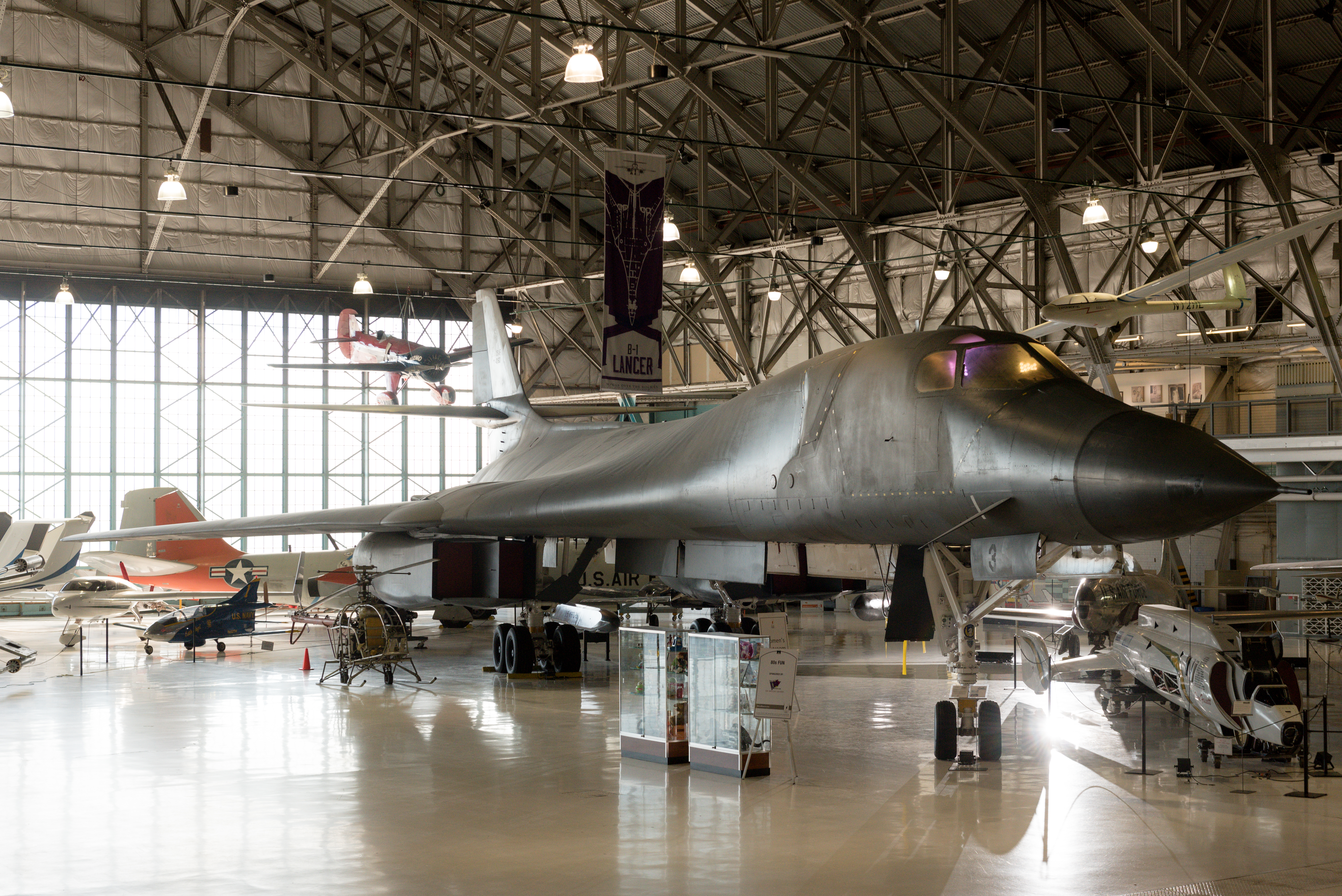 B-1A Lancer at Wings Over the Rockies